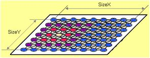 2D neuronal map with winner neuron